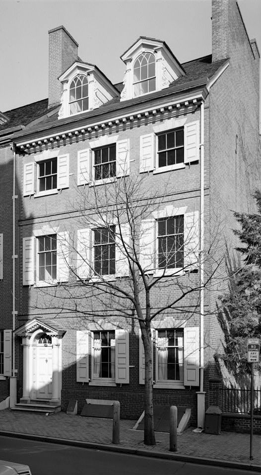 William White House, part of Independence National Historic Site